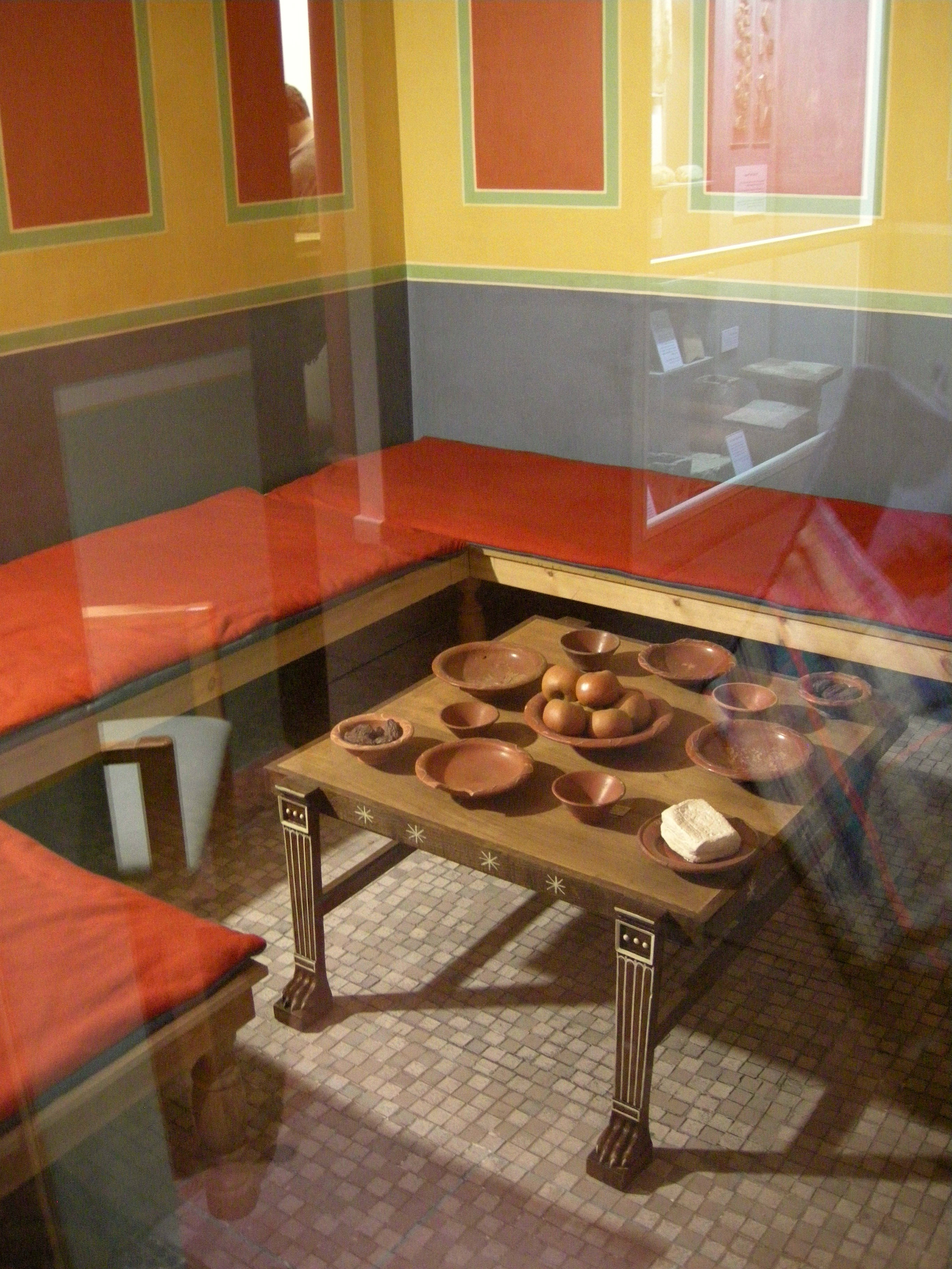 Roman Museum in Butchery Lane, Canterbury, Kent. Reconstruction of excavated Roman house, with real Roman pottery on the table.